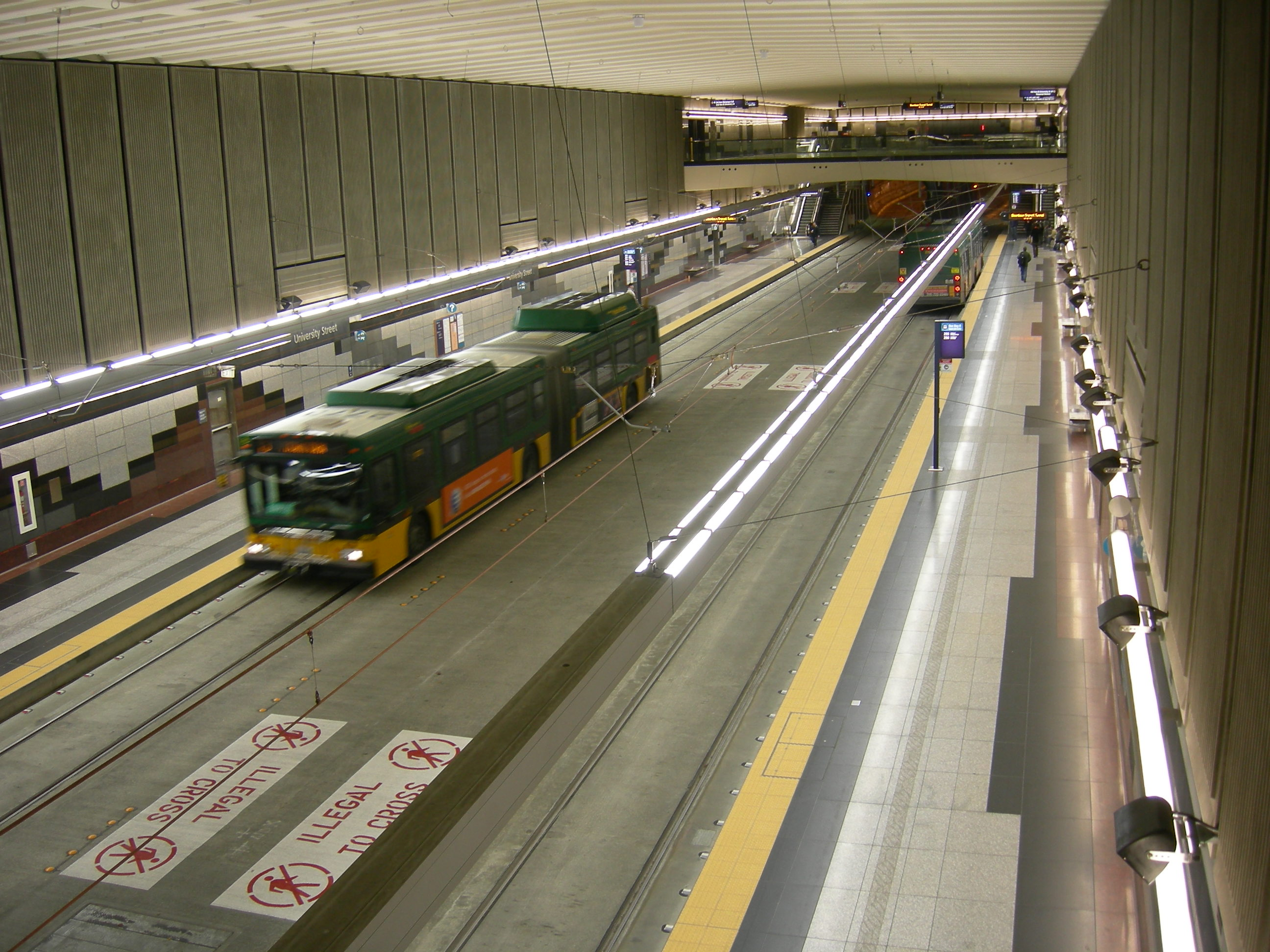 View from mezzanine, University Street transit tunnel station, Seattle, Washington.